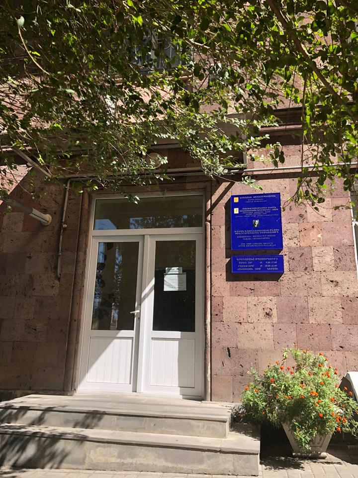 The main building of the library